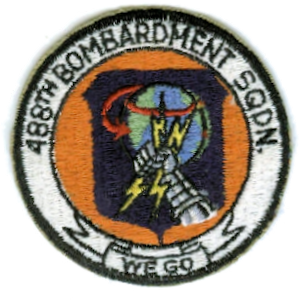 Emblem of the 488th Bombardment Squadron (SAC)